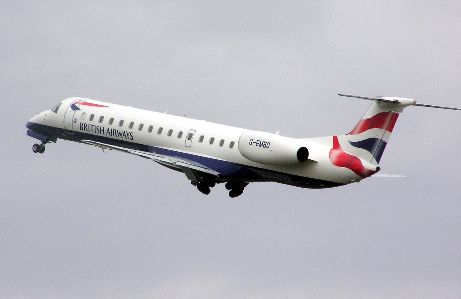 British Airways ERJ 145 (G-EMBD) taking of from Bristol International Airport, Bristol, England. The wheels are just retracting. Taken by Adrian Pingstone in April 2004 and released to the public domain.